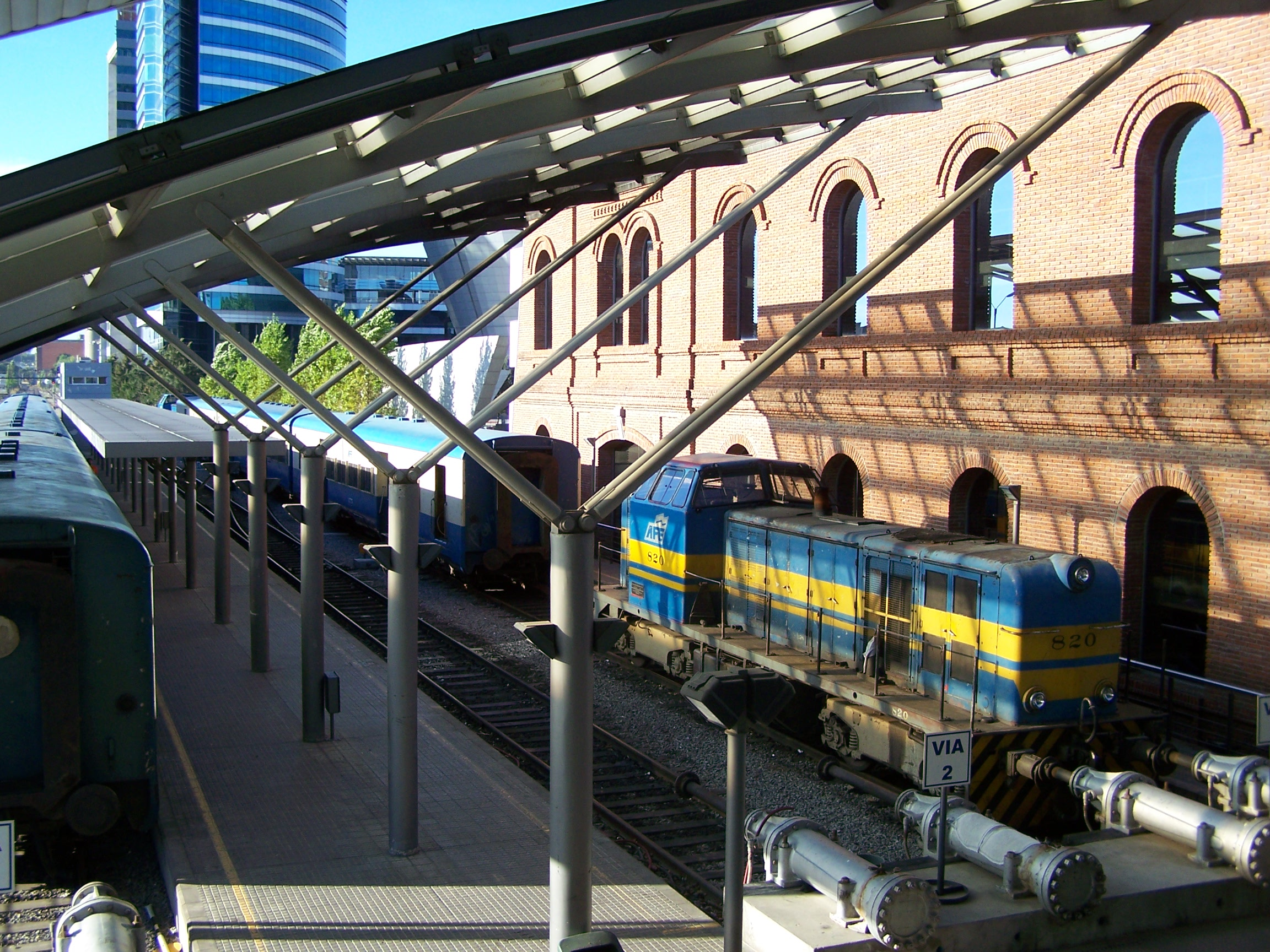 The new "central" station of Montevideo (Uruguay)